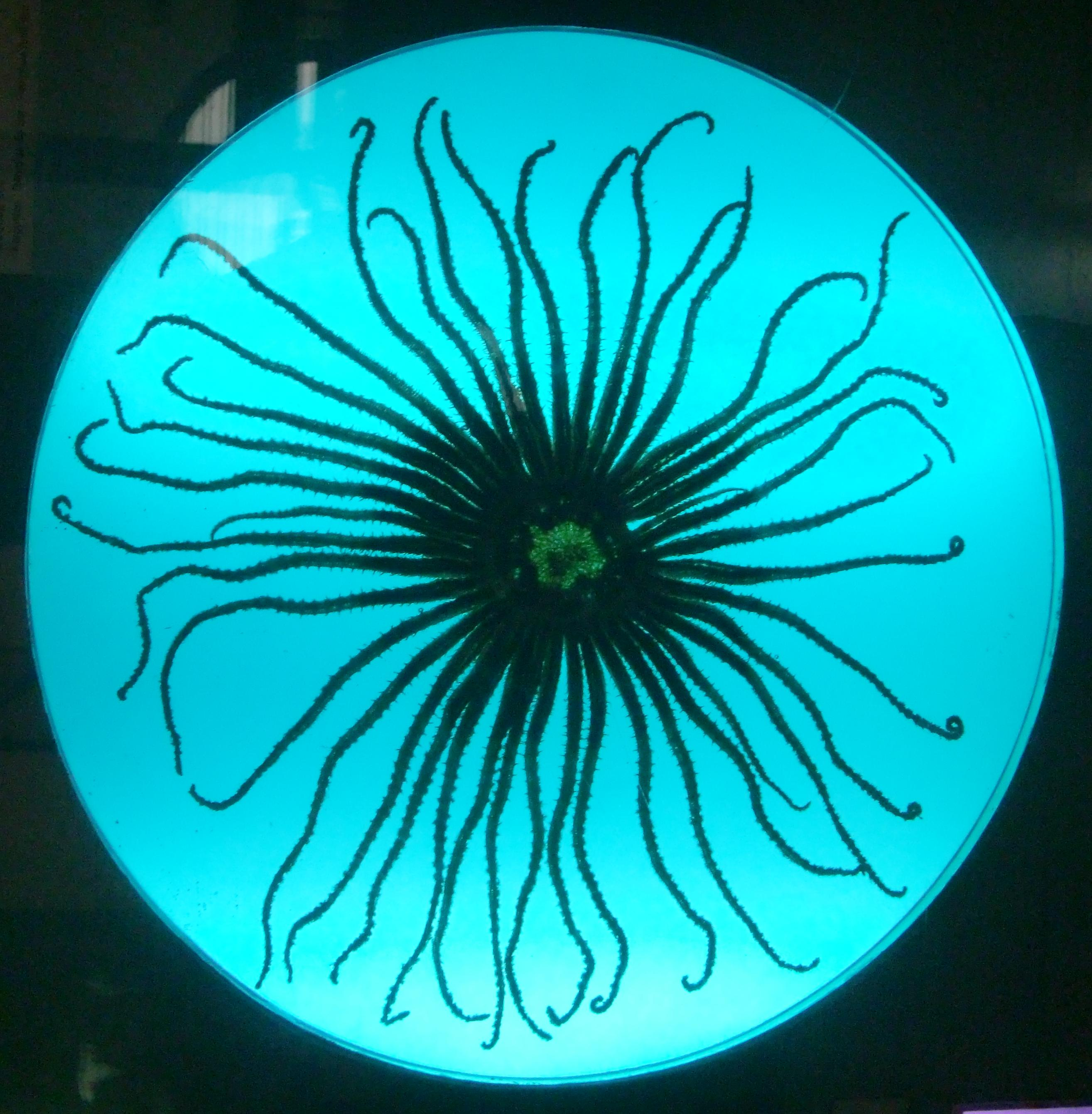 Labidiaster annulatus, on display at Bernardino Rivadavia Natural Sciences Museum with thanks to the museum for allowing photography